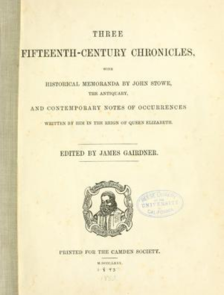 Title page of James Gairdner's Three Fifteenth-Century Chronicles (London, 1880).